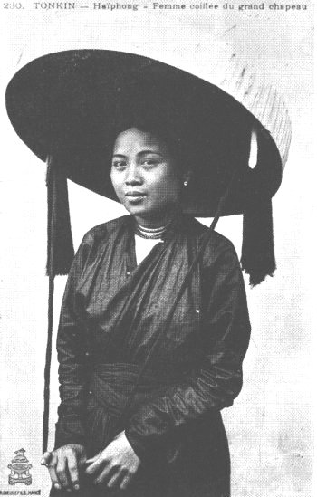 Tonkin woman with quai thao hat.